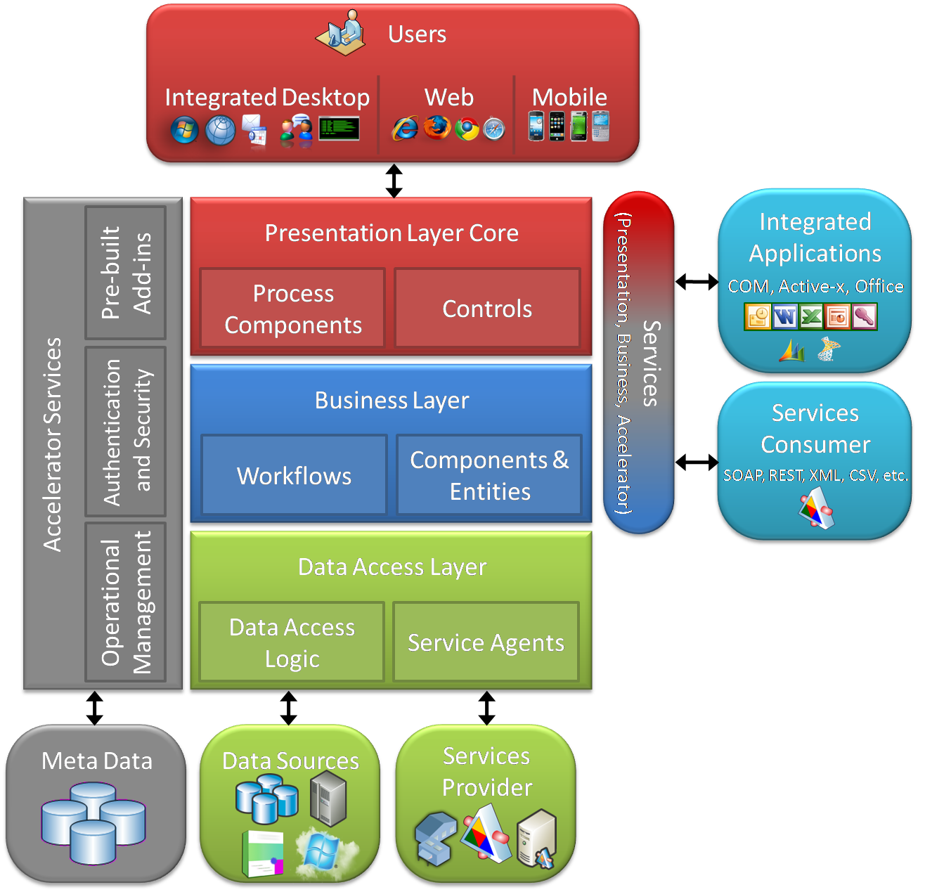 Accelerator Framework Architecture Methodology